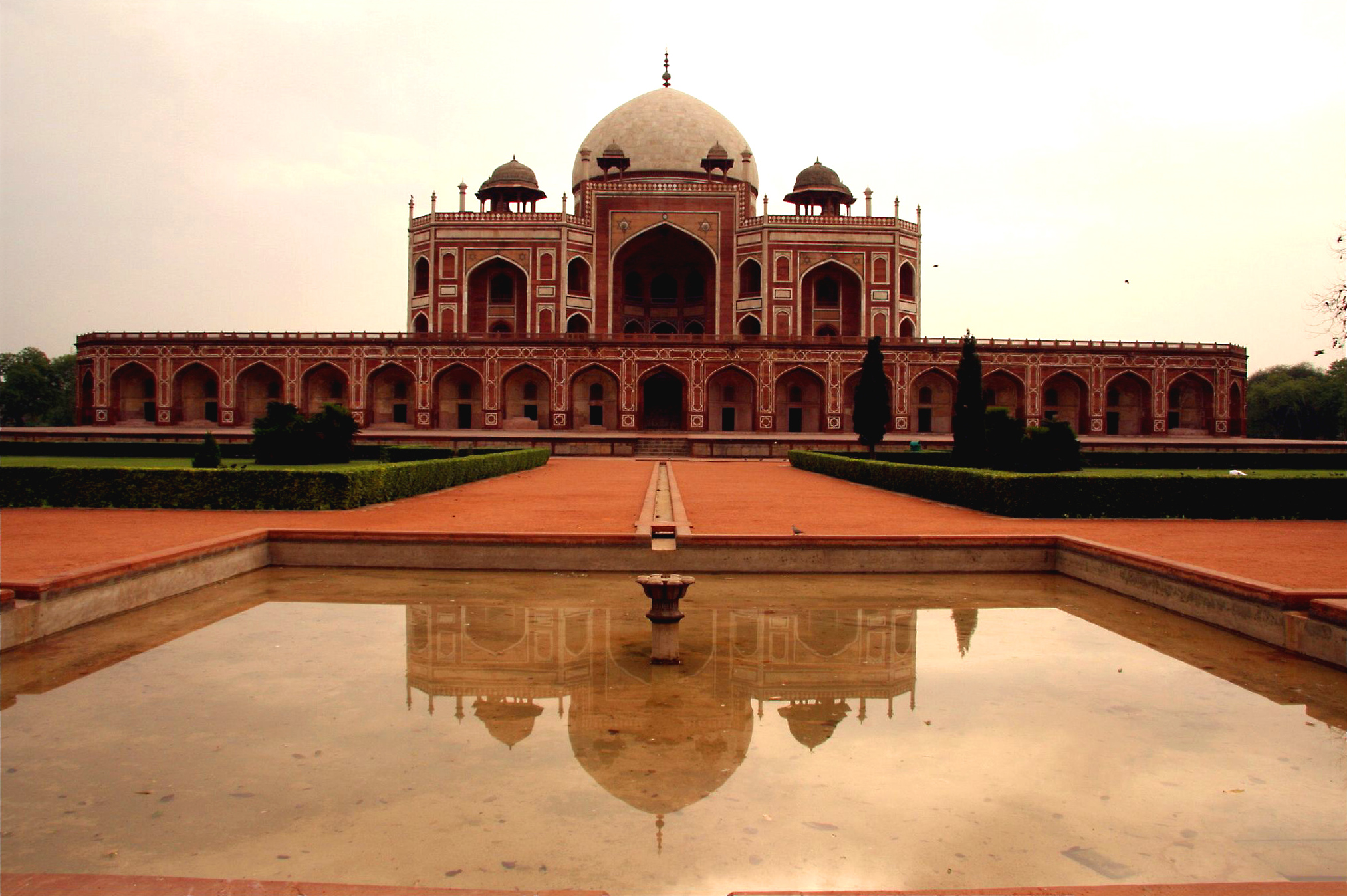 This is a photograph of the Humayun's Tomb, at New Delhi, India